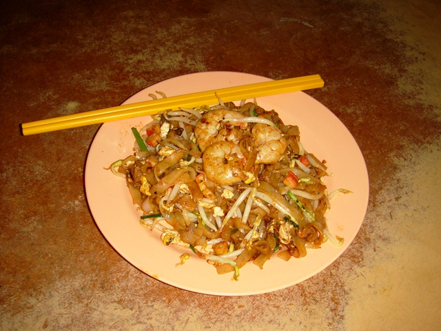 Char Kway Teow, Georgetown (Malaysia).